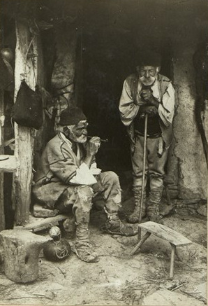 Bulgaria